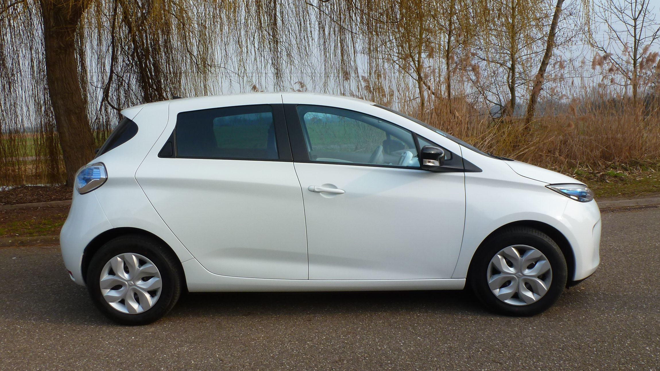 Renault ZOE, Series 2013